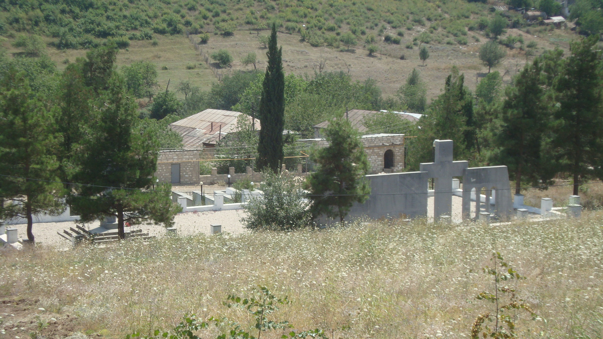 A monument in the village Sos. Martuni district, Republic of Mountainous Karabakh (Artsakh).